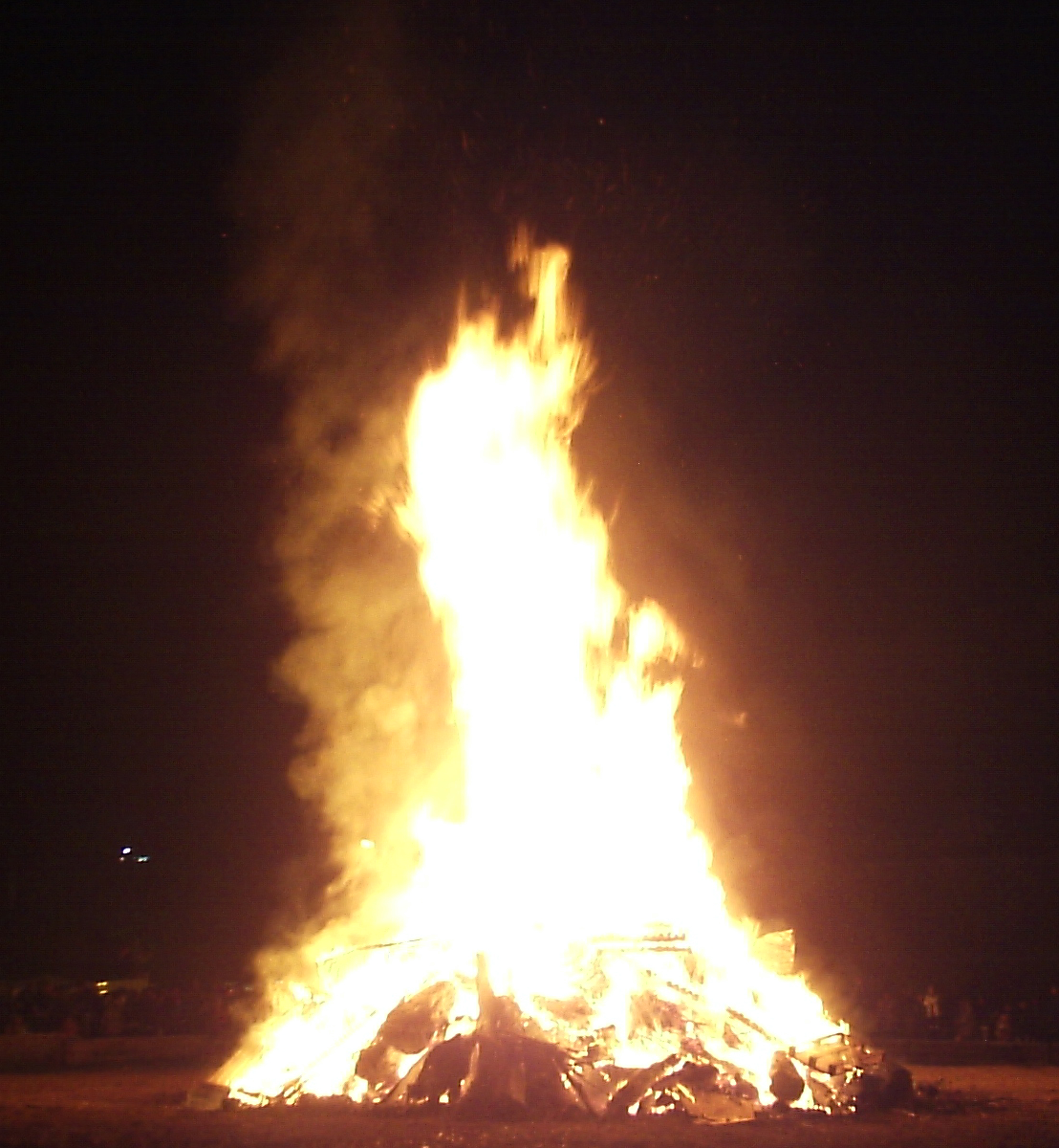 A tradition of Nepi: the "focarone" St. Anthony Abbot